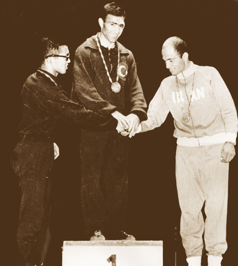 1960 Olympics, 52 kg freestyle wrestling podium